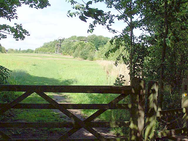 Site of former Brinsley Colliery. The former Brinsley Colliery has now been transformed into a picnic area. Author D H Lawrence's father worked at the colliery and DHL, born in nearby Eastwood, used the location in "Sons and Lovers" calling it Begarlee.